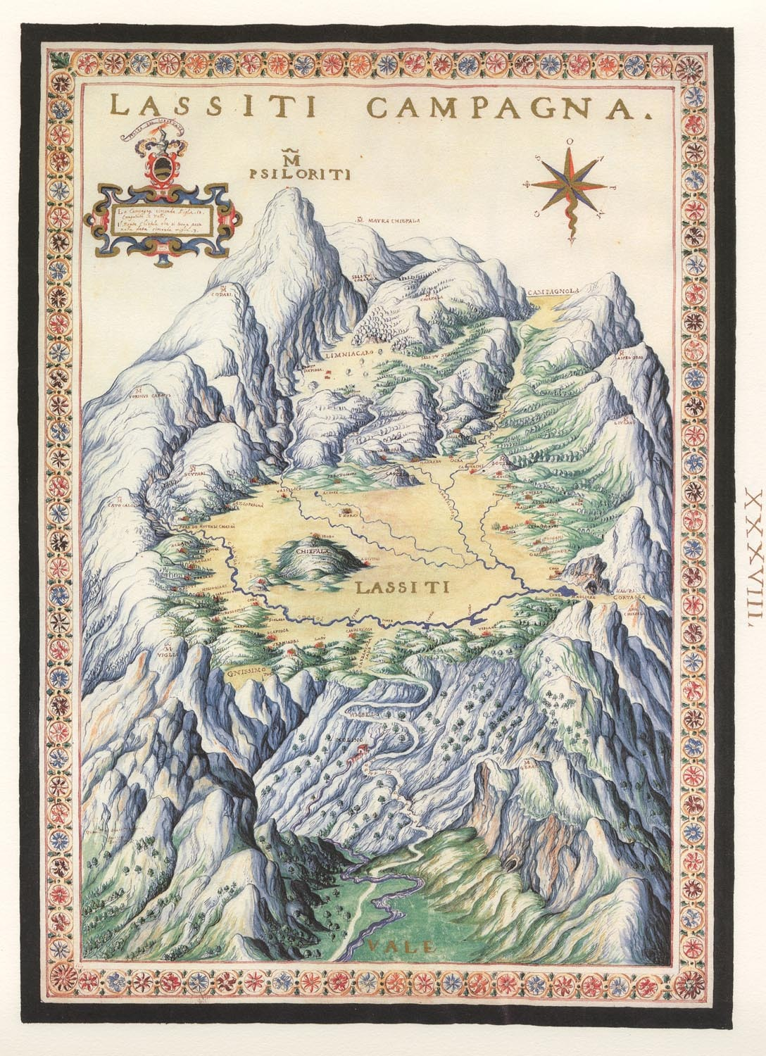 Campagna di Lassiti - Francesco Basilicata - 1618